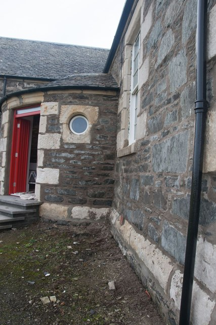 Former school, Portnahaven, Islay